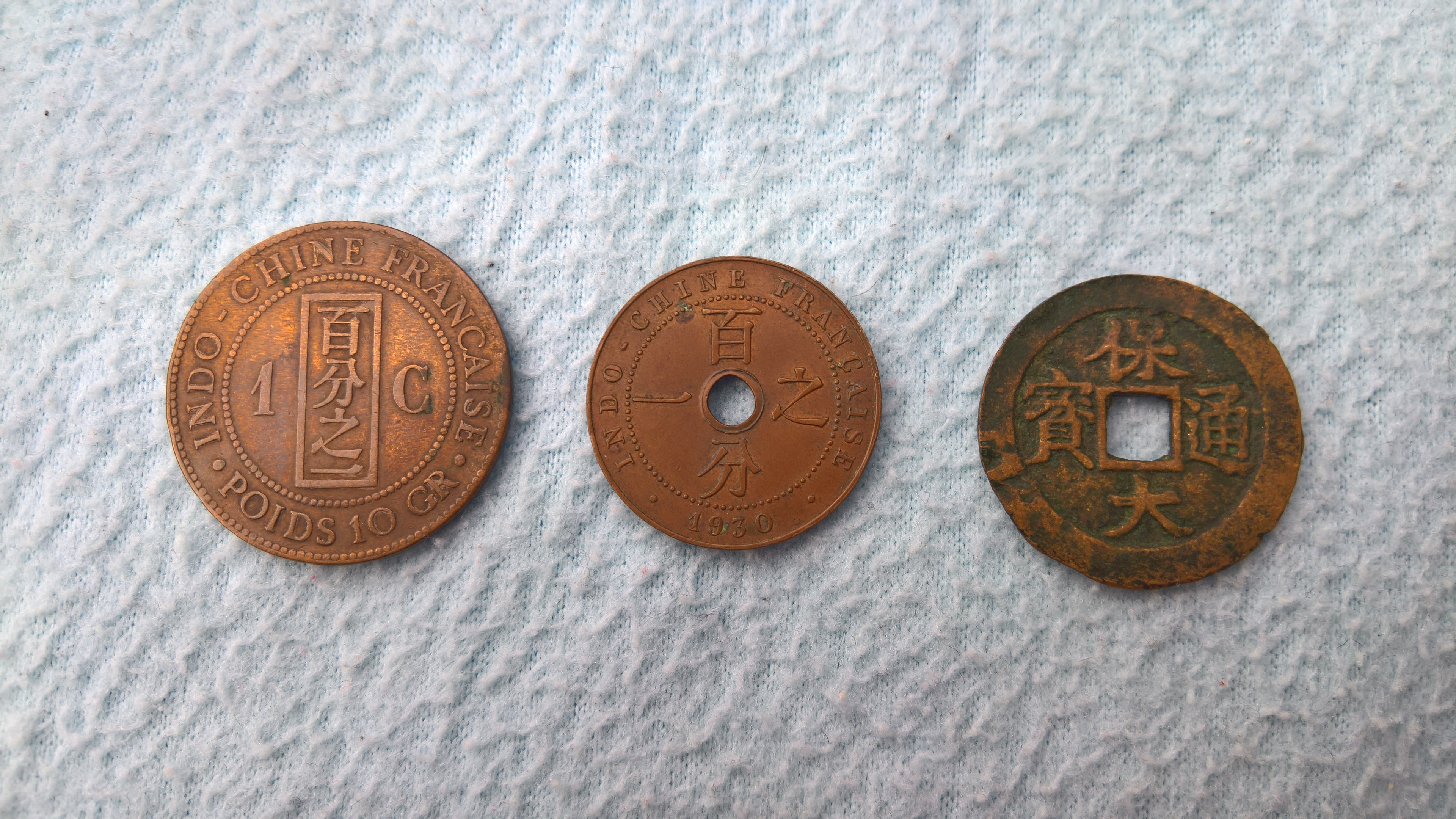 Two different styles of the French Indo-Chinese 1 cent coins, and a 10 Sapèque (2/100) coin.